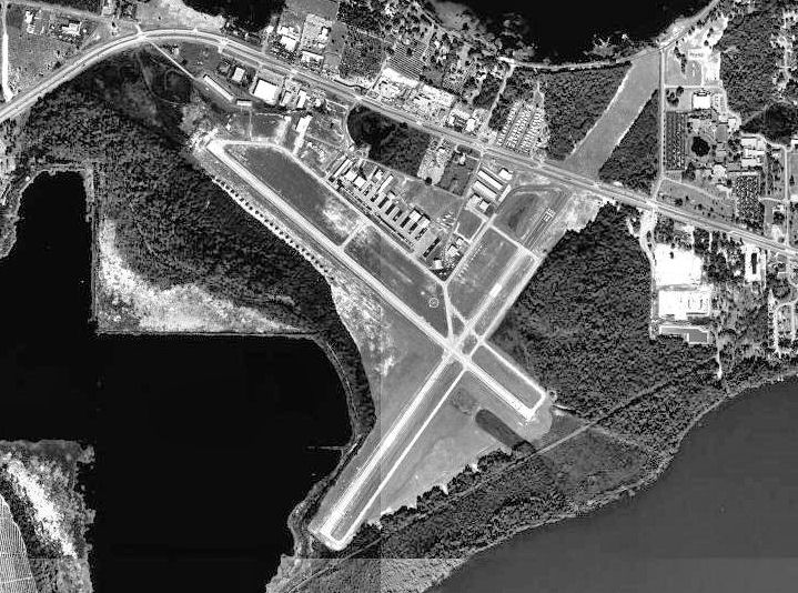 Aerial image of Leesburg International Airport, Florida